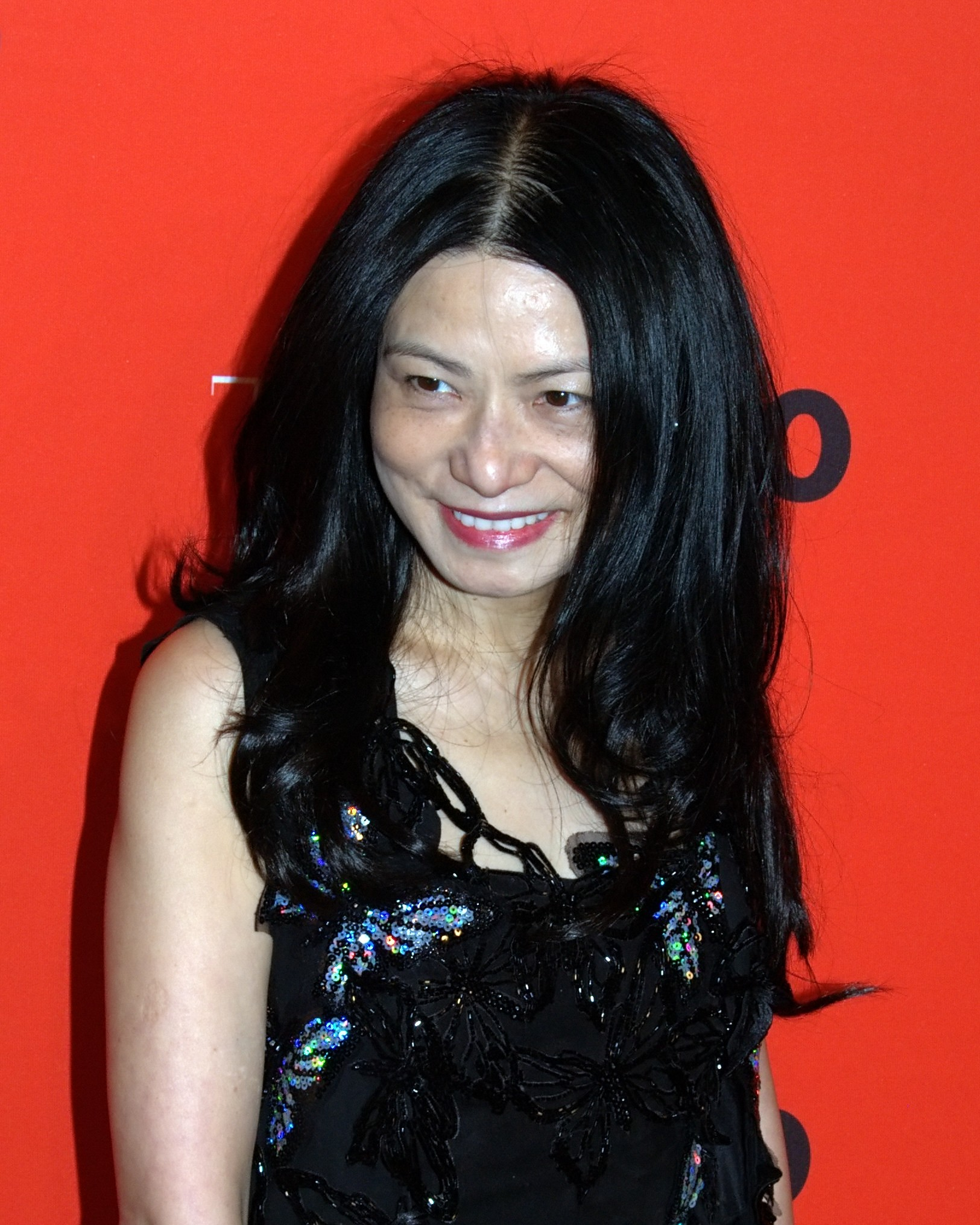 Vivienne Tam at the 2010 Time 100 Gala.